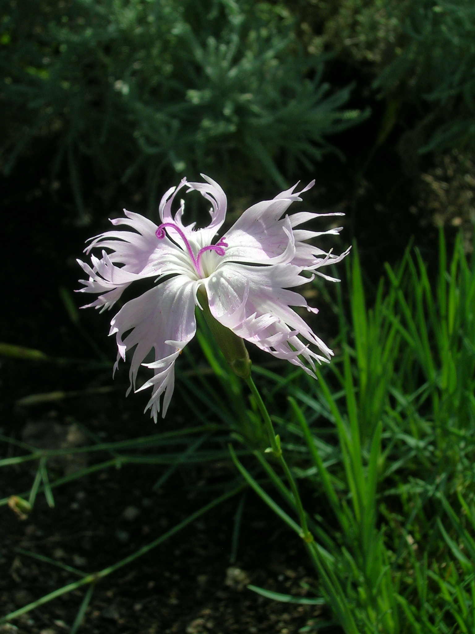 Dianthus spiculifolius , photographed in collection of Oslo Botanical garden